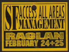 Strawberry Fields AAA Pass - photo taken and uploaded by Paul Moss, Photographer, Artist, Paul Moss Photographer Artist NZ